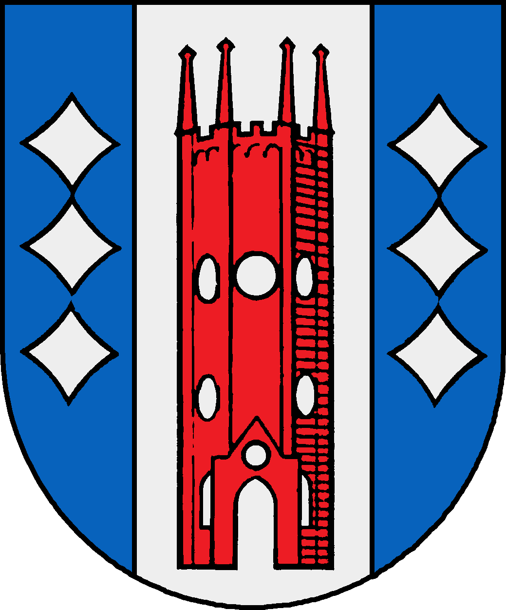 Coat of arms of the municipality Panker in Schleswig-Holstein, Germany.